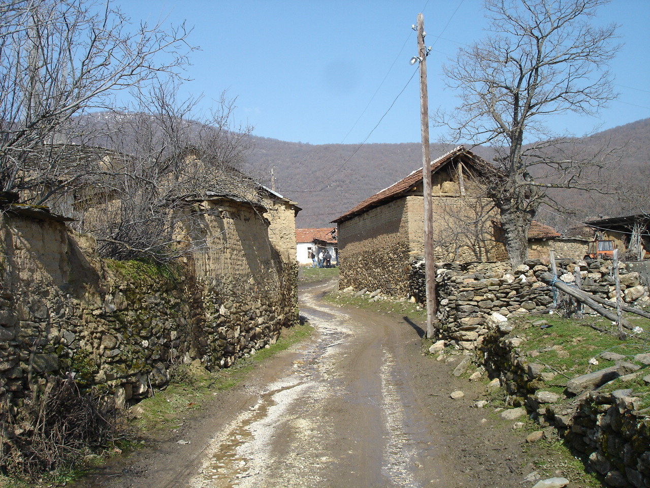 Main street in the village of Rilevo, Macedonia